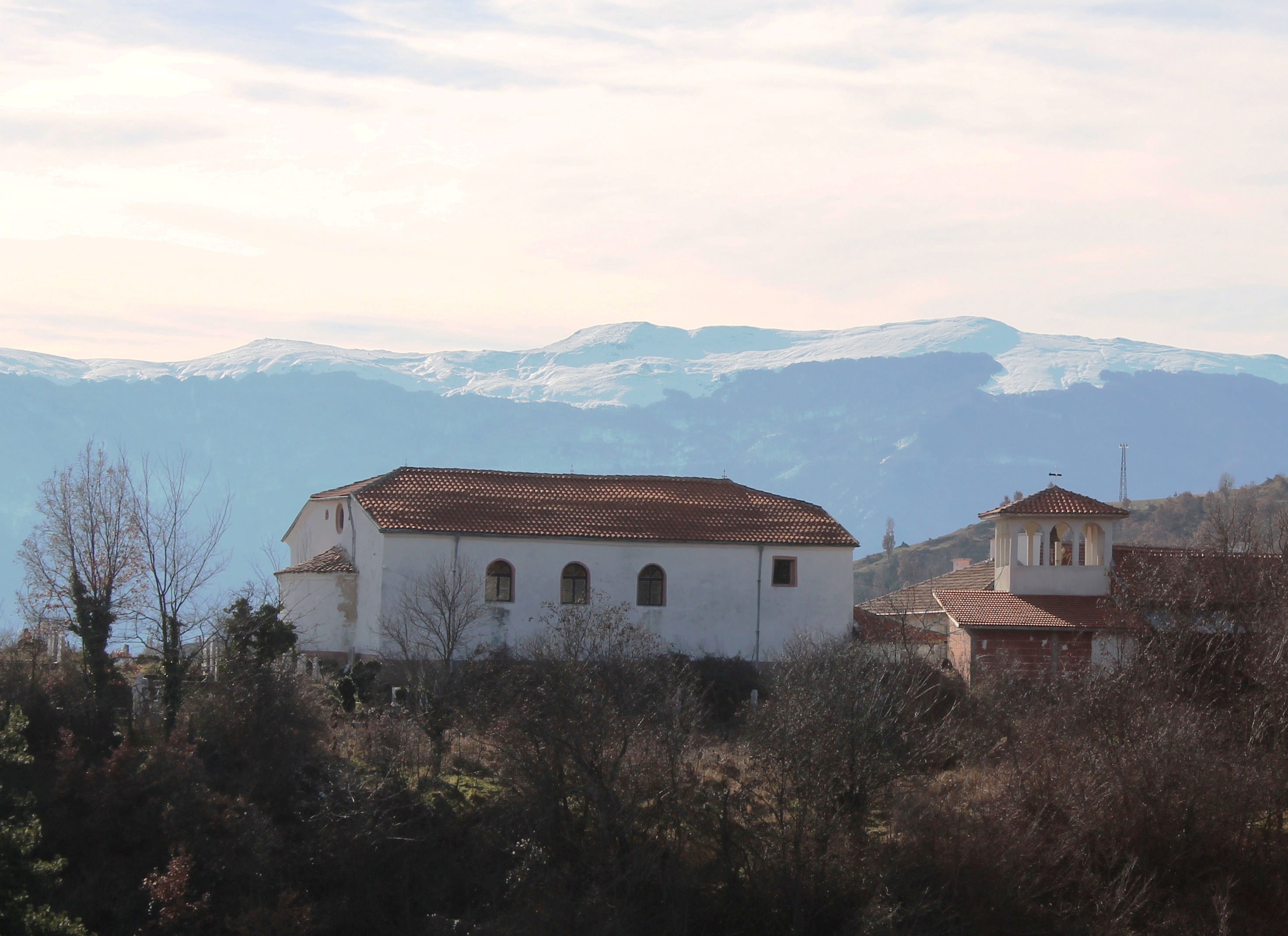 Church of the Assumption, Gega, Bulgaria